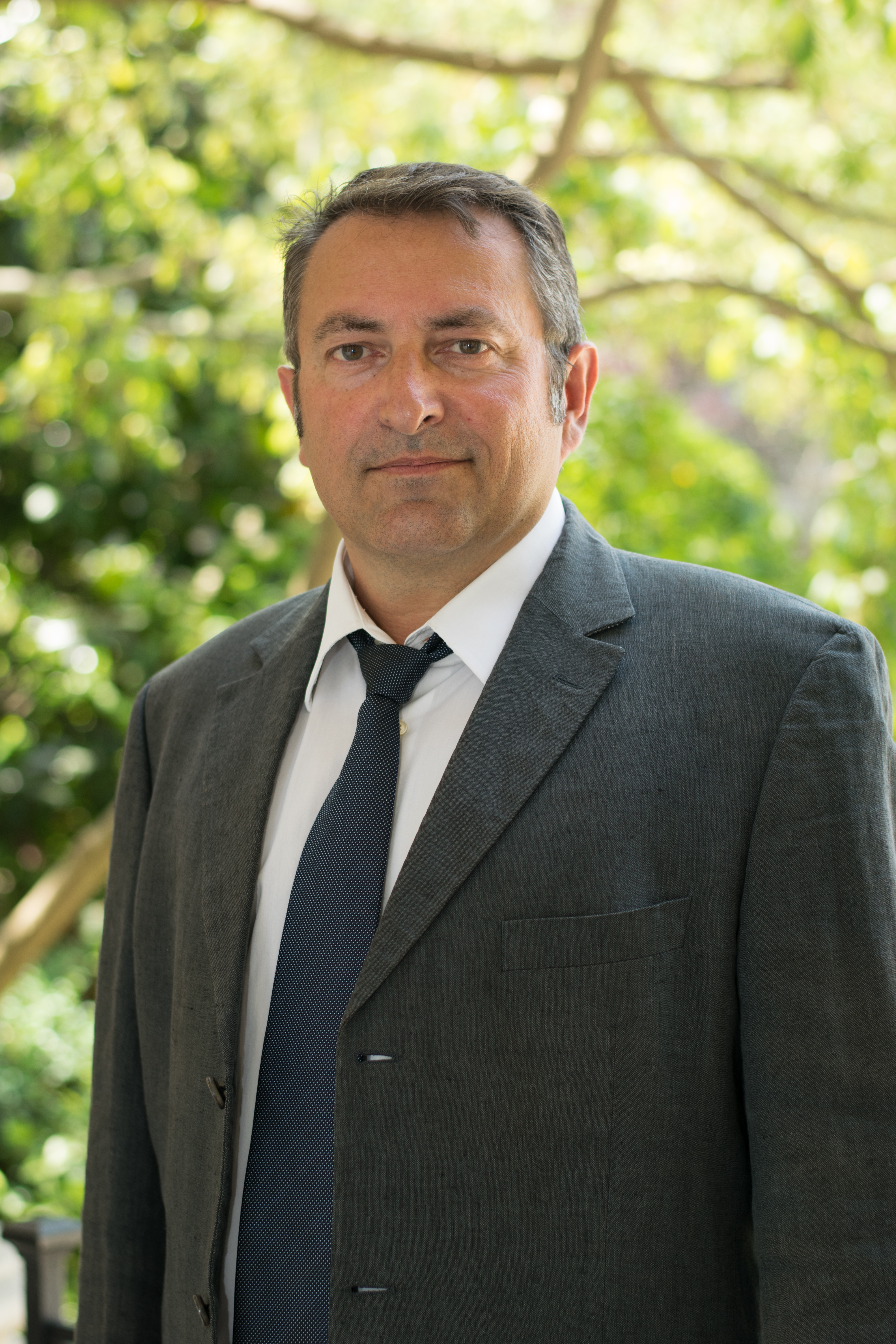 Jean-François Portarrieu in the garden of the Quatres Colonnes in the Palais Bourbon (Paris, France).